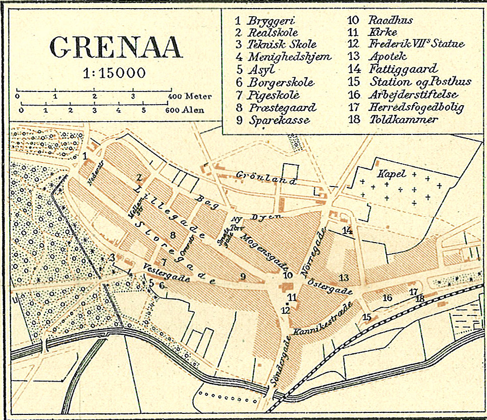 Map of Grenaa Randers County in Denmark